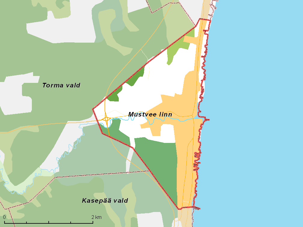 Map of municipality in Estonia